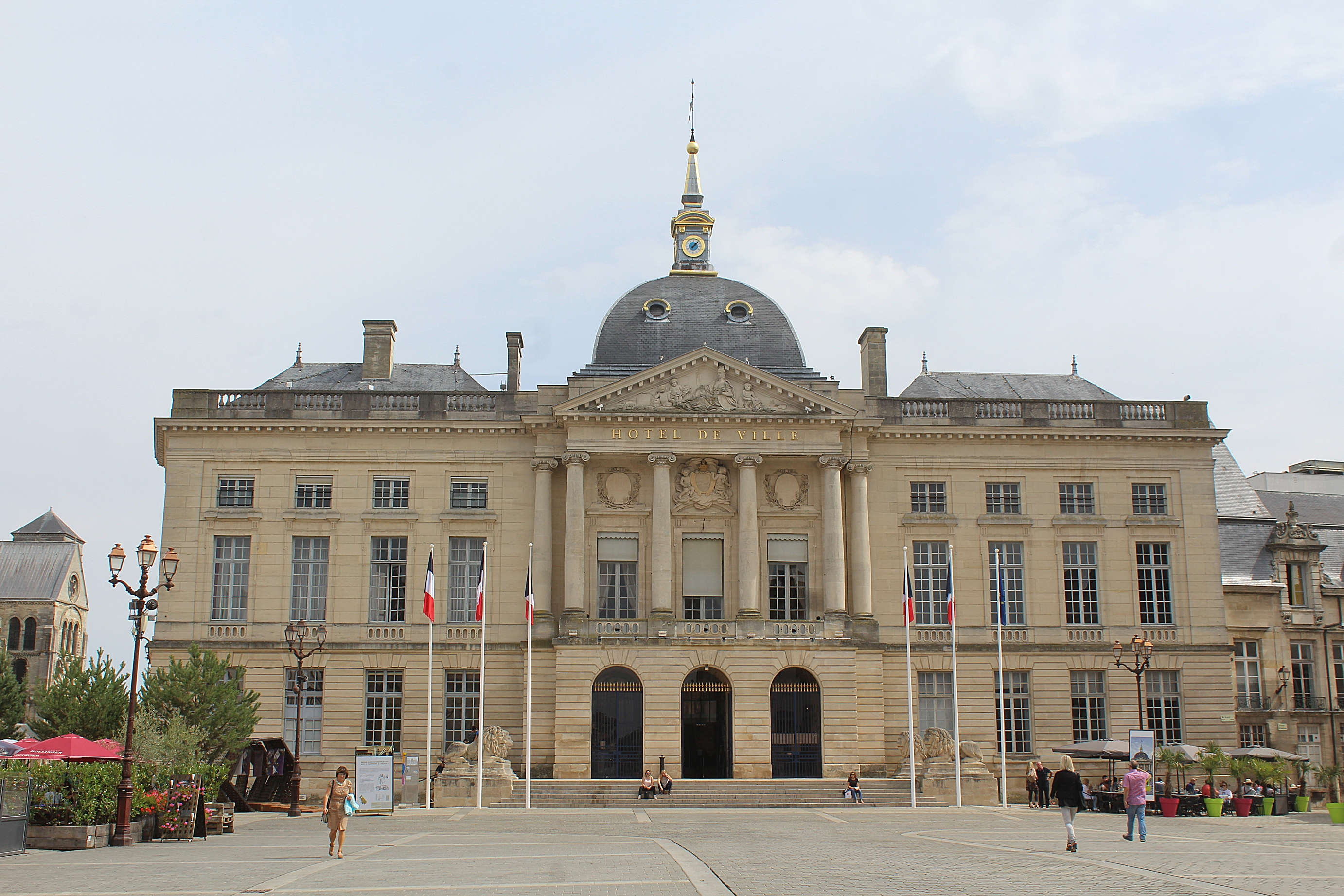 Châlons-en-Champagne, the town hall